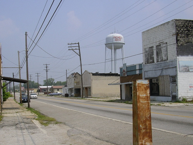 A view looking north along Connell Ave (US 69) in the main business area of the former Oklahoma town of Picher